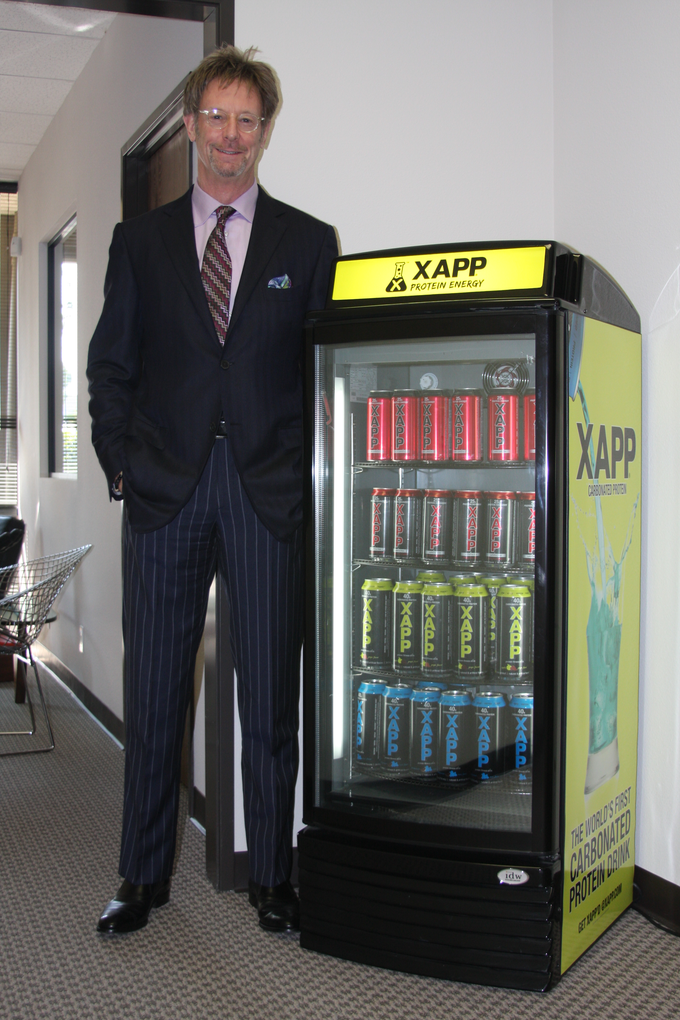 David Andrew Jenkins and his product XAPP Protein Fitness Drink at Next Proteins, Inc.